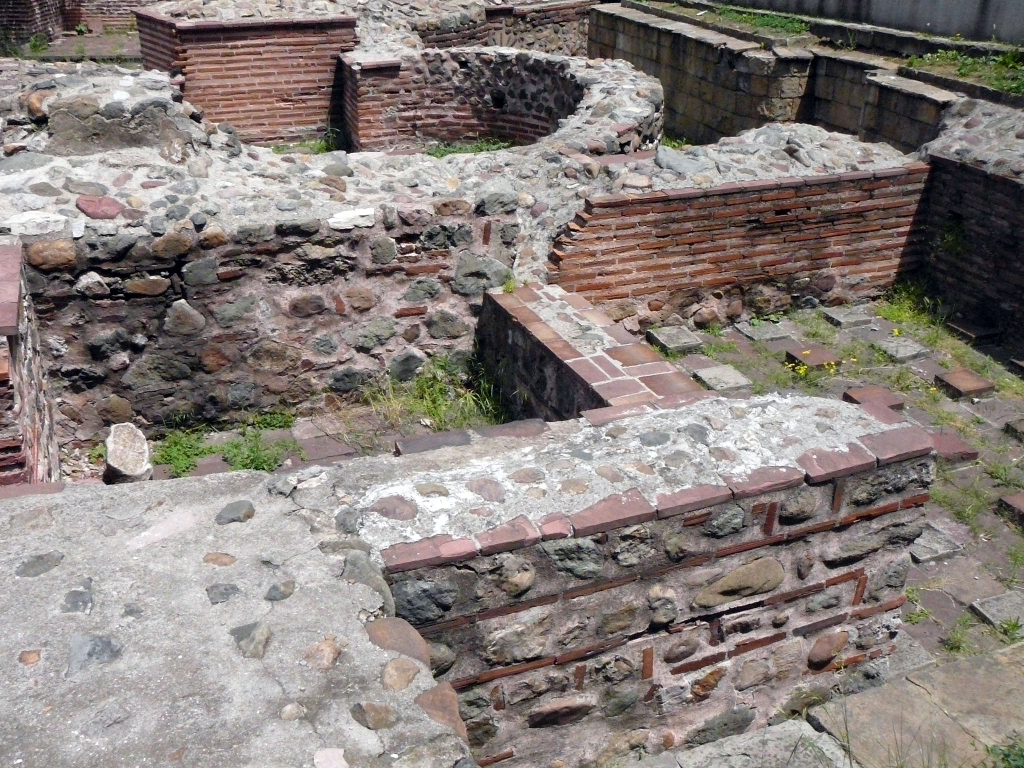 Church of St. George, Sofia,bULGARIA